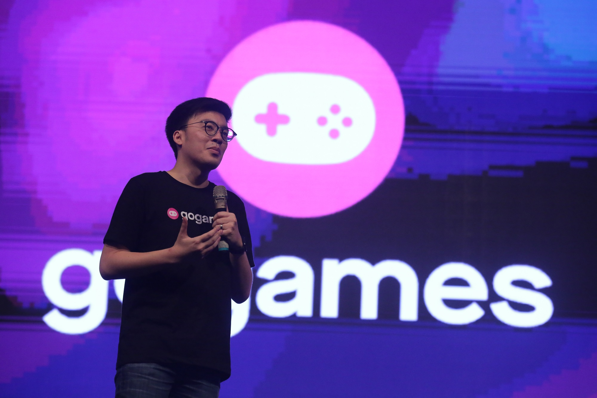 Co-founder Gojek